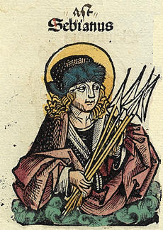 Illustration from the Nuremberg Chronicle